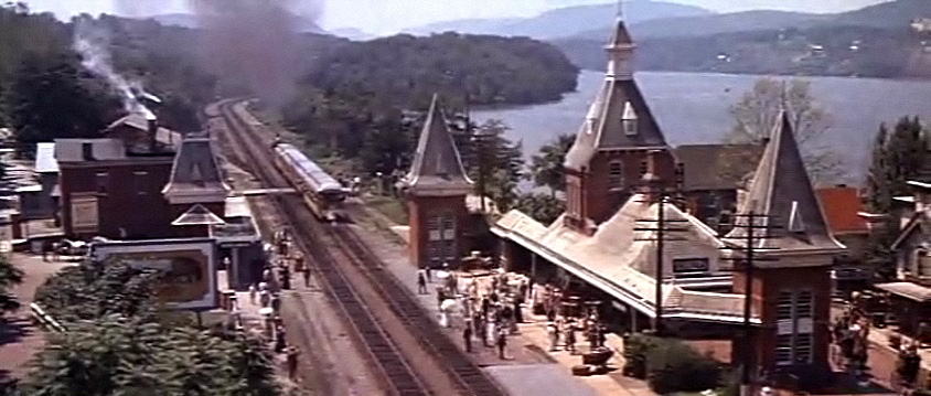 Screenshot from the trailer for the film Hello, Dolly! (film)